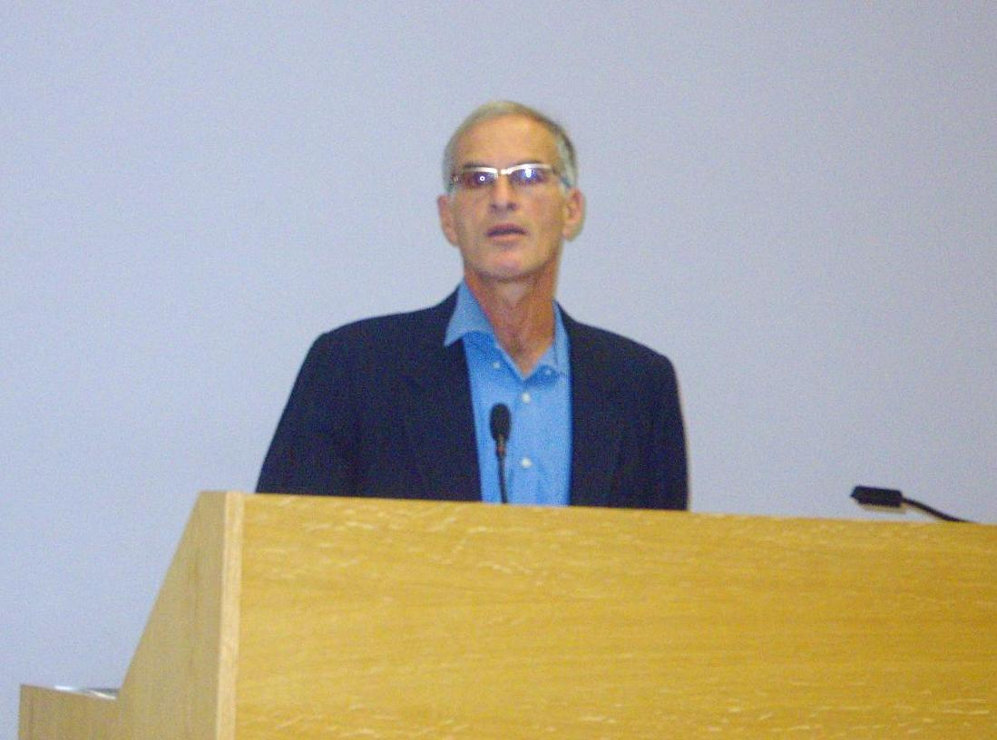 Dr. Norman Finkelstein is a public figure. This photo of Dr. Norman Finkelstein taken with his permission during a lecture in the University leeds.